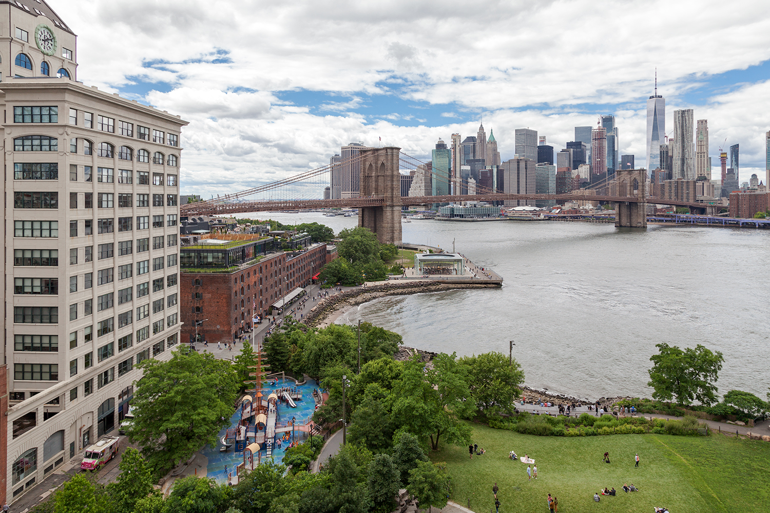 View of Brooklyn Bridge Park from Manhattan Bridge (Photo gallery of DUMBO, Brooklyn)